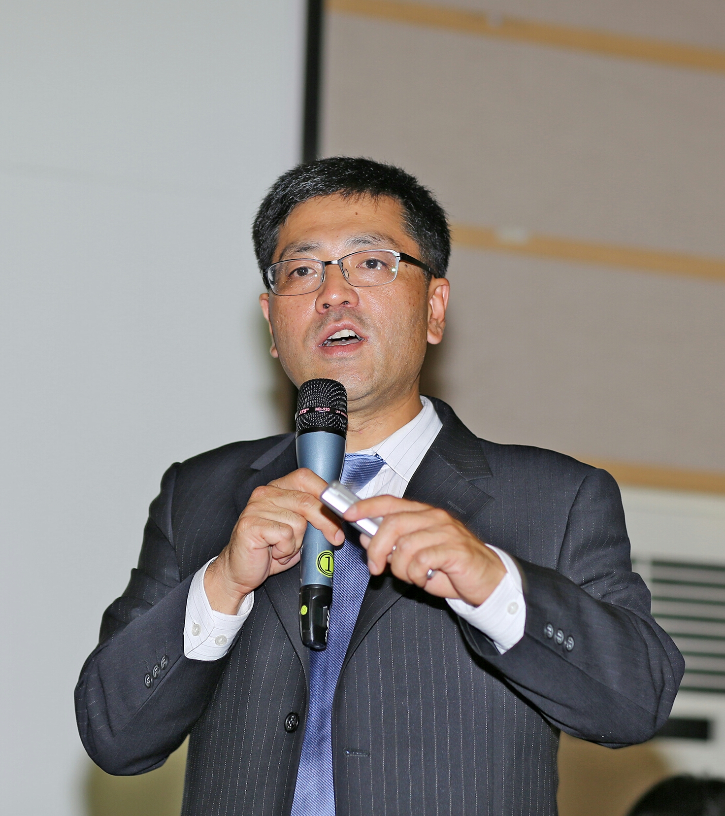 Donald Kang sailor picture